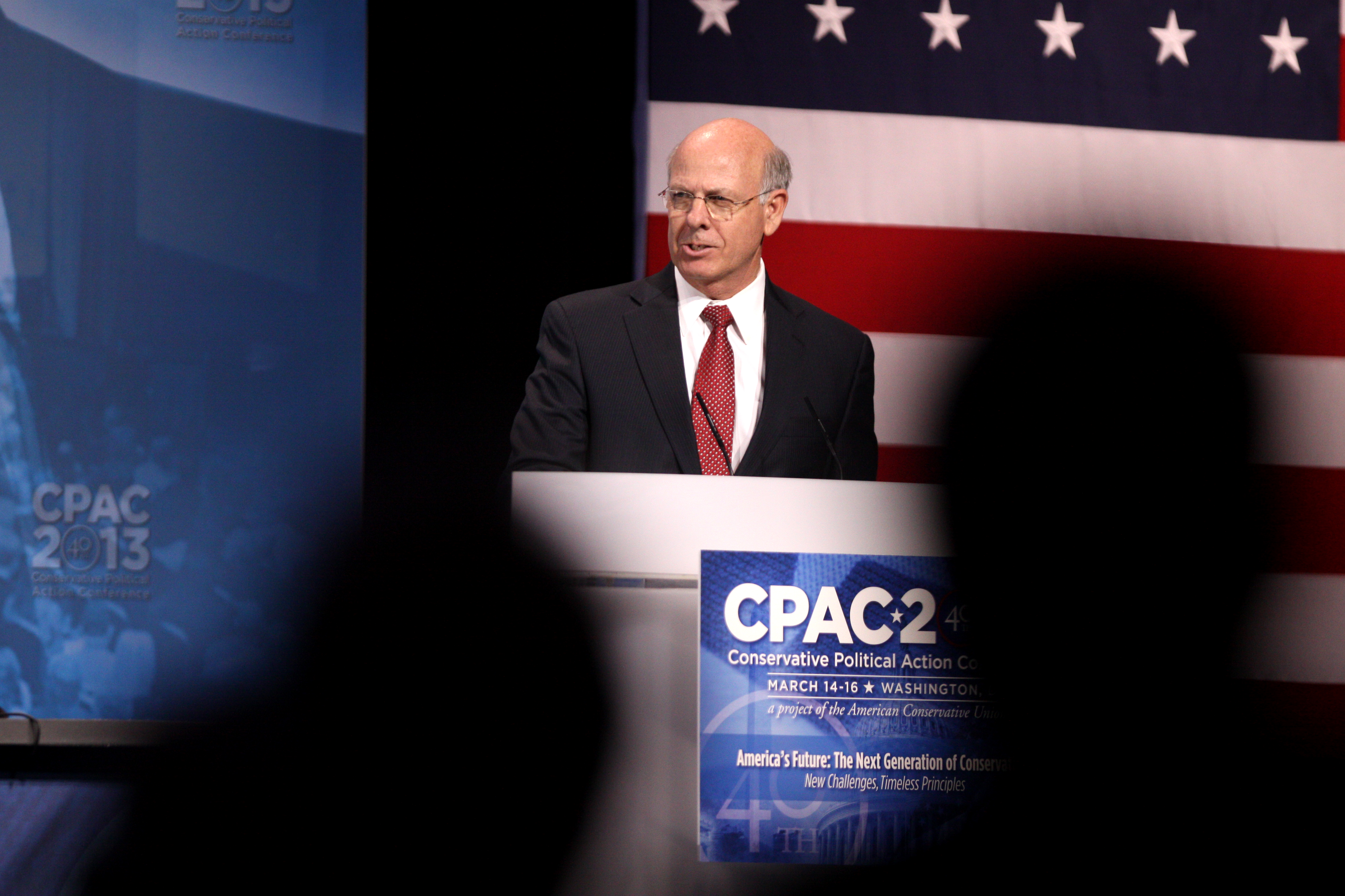 Congressman Steve Pearce of New Mexico speaking at the 2013 Conservative Political Action Conference (CPAC) in National Harbor, Maryland.